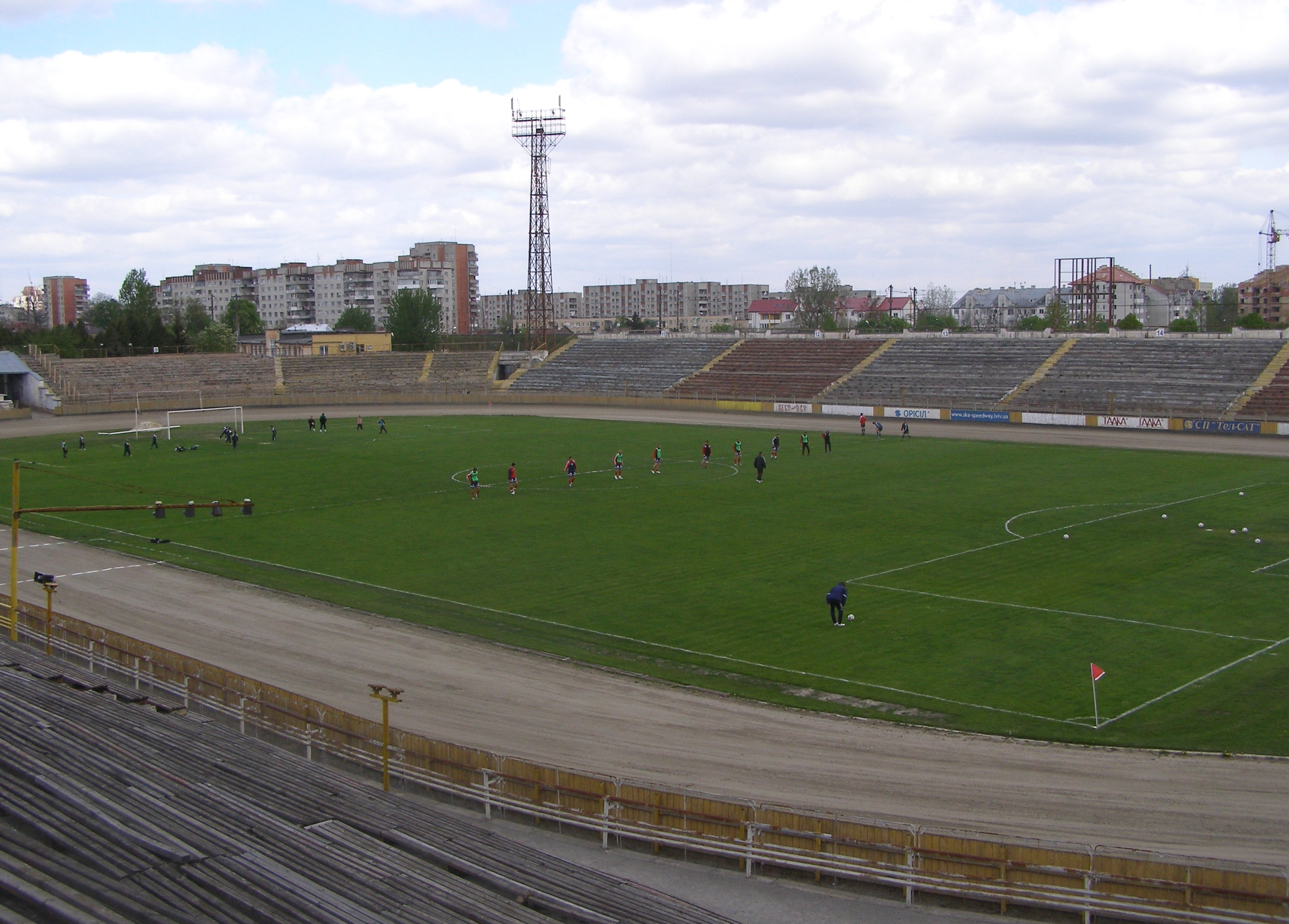 SKA Stadium in Lviv